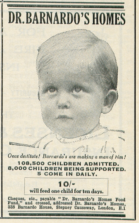 This is an advertisement for Dr. Barnado's Homes.